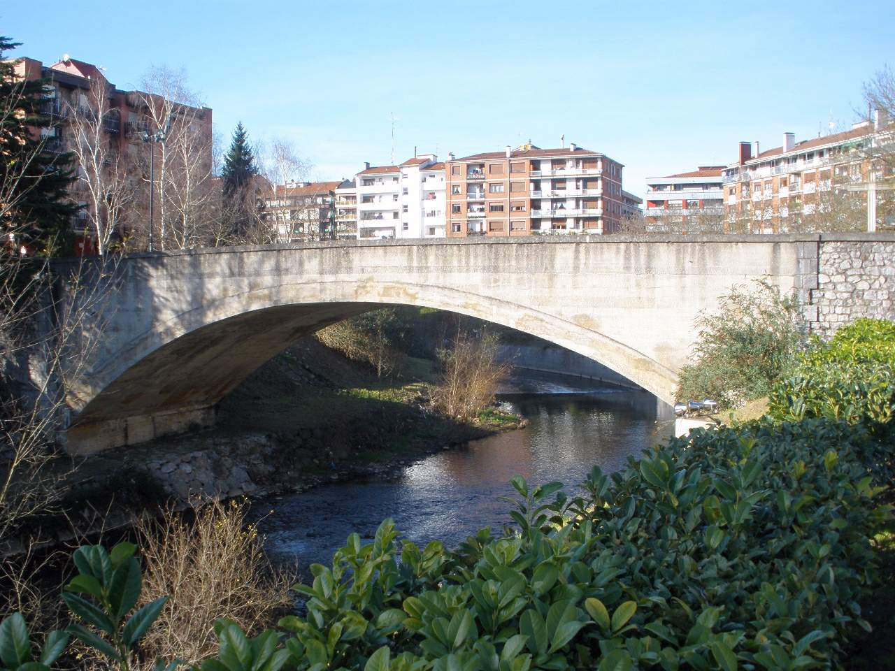 El Ibaizábal a su paso por Amorebieta (Vizcaya)